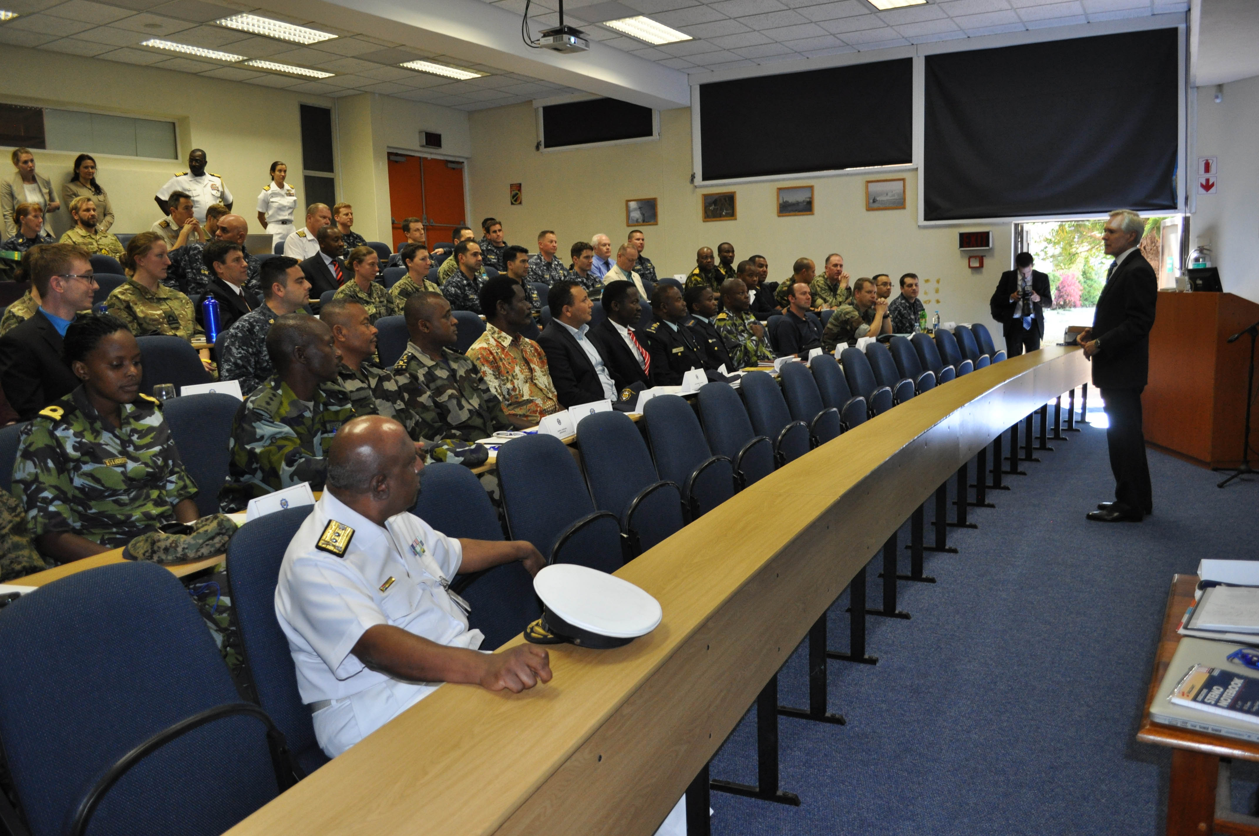 141118-N-ZZ999-003 - SIMON’S TOWN, South Africa (Nov. 18, 2014) - Secretary of the Navy (SECNAV) Ray Mabus speaks to participants about the importance of maritime security at the final planning event of Exercise Cutlass Express 2015. Cutlass Express is a U.S. Africa Command-sponsored multinational maritime exercise designed to increase maritime safety and security in the waters off East Africa. (U.S. Navy photo by Lt. Cheryl A. Collins/Released)